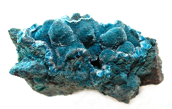 Plancheite Locality: Kolwezi, Western area, Katanga Copper Crescent, Katanga (Shaba), Democratic Republic of Congo (Zaïre) (Locality at ) Botryoids of velvety, sky blue plancheite, up to .75 cm, adorn the matrix. This uncommon copper silicate is rarely seen in good specimens. On the specimen edge one can clearly see the radiating pattern of crystal development. EXTREMELY LARGE AND RICH FOR THE LOCALITY! 5.9 x 3.2 x 2.6 cm